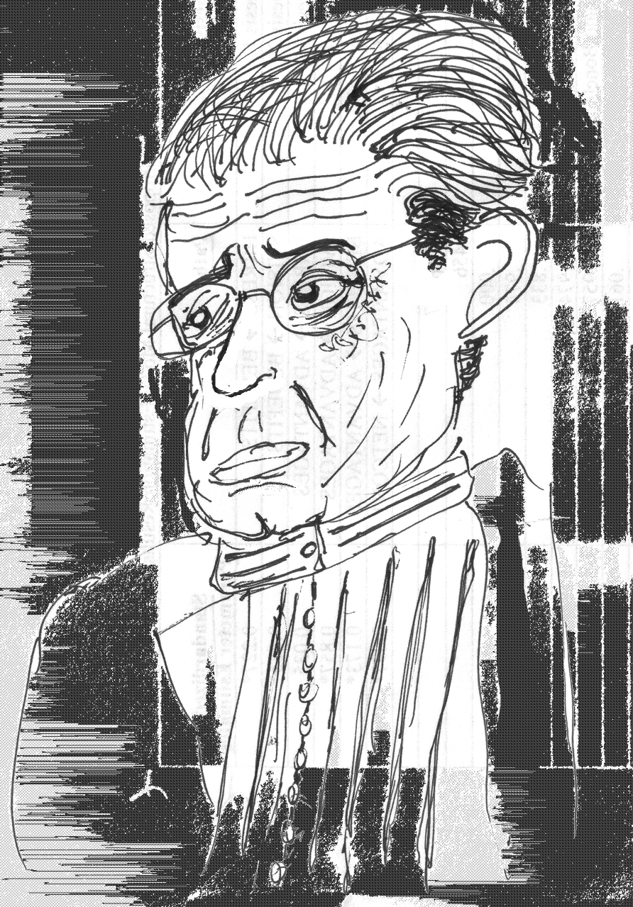 Sketch of Jacques Lacan